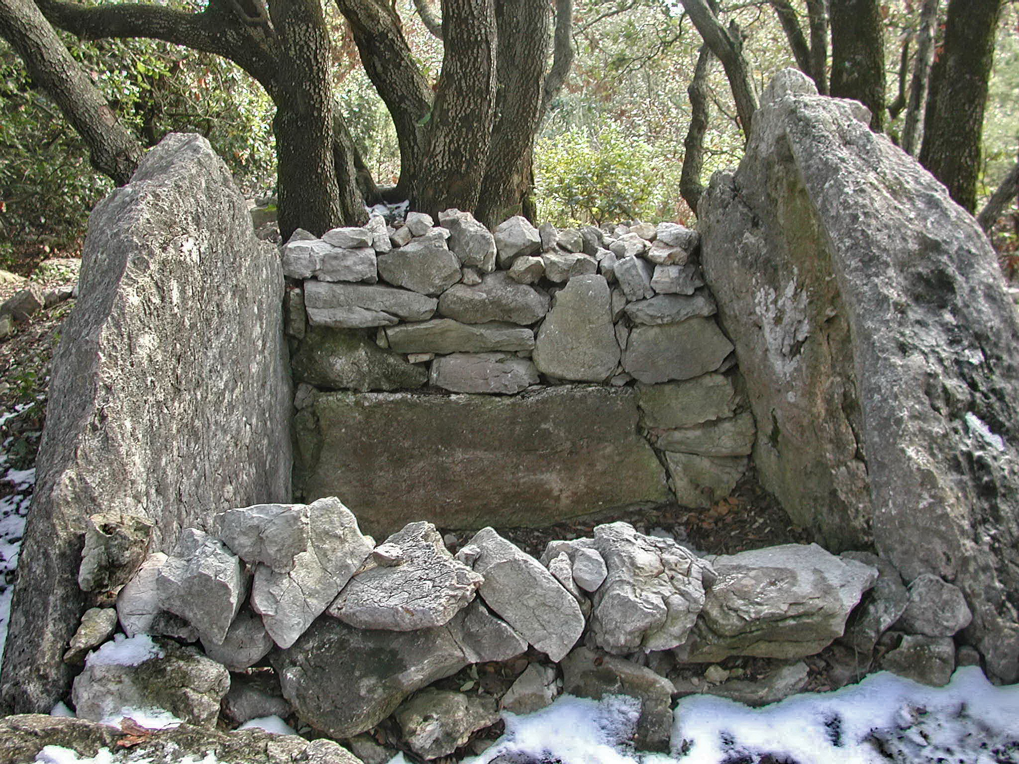 Riens's dolmen in Mons(Var) .